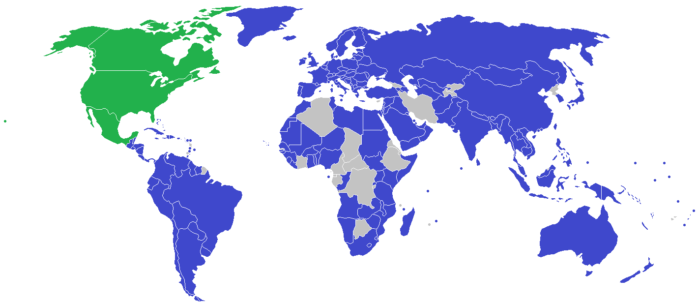 This map details the conditions of Roaming of AT&T Mexico. Green: Local (Mexico, United States and Canada) Blue: Roaming available Gris: Roaming unavailable